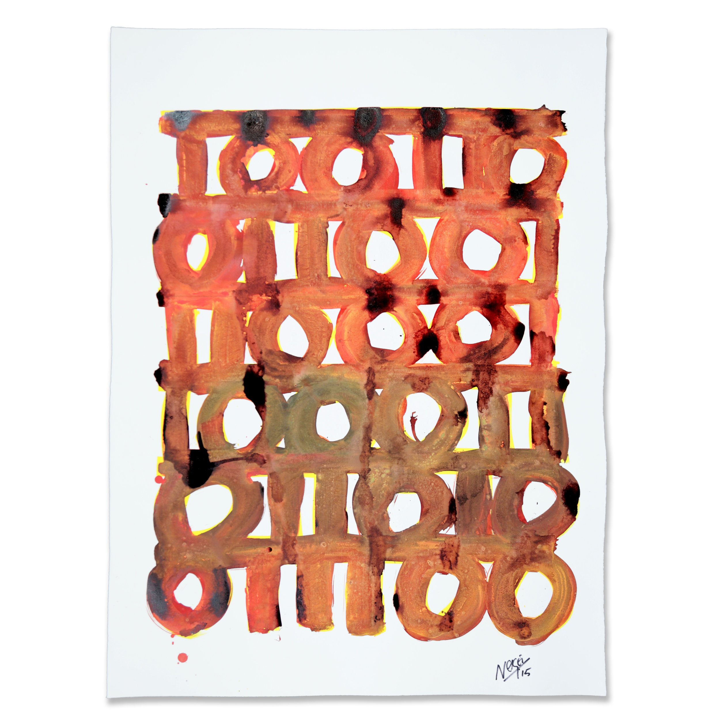 Binary Art paper. Created by Albert Vergés 2016.